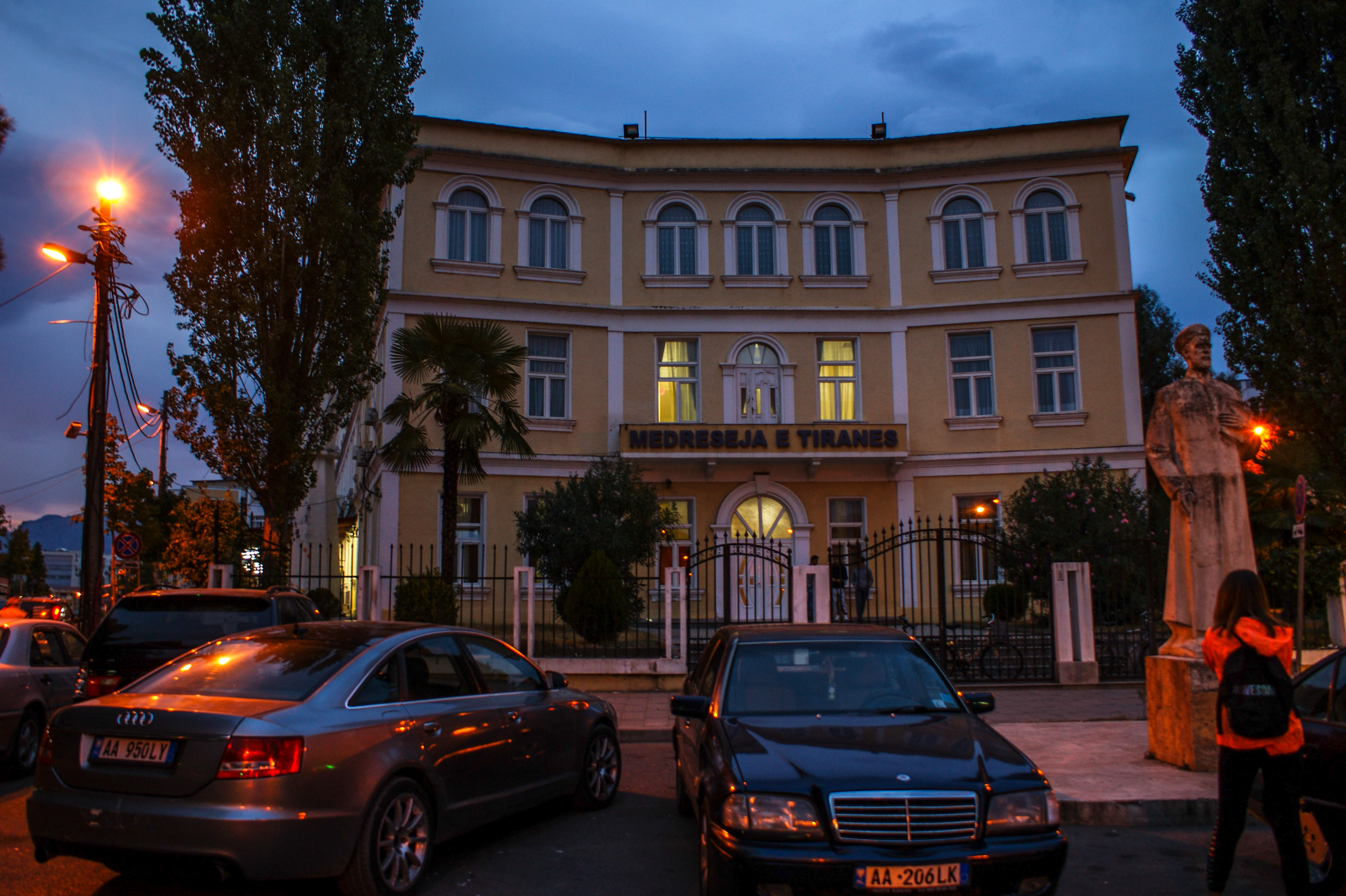 Madrasa of Tirana - Albania